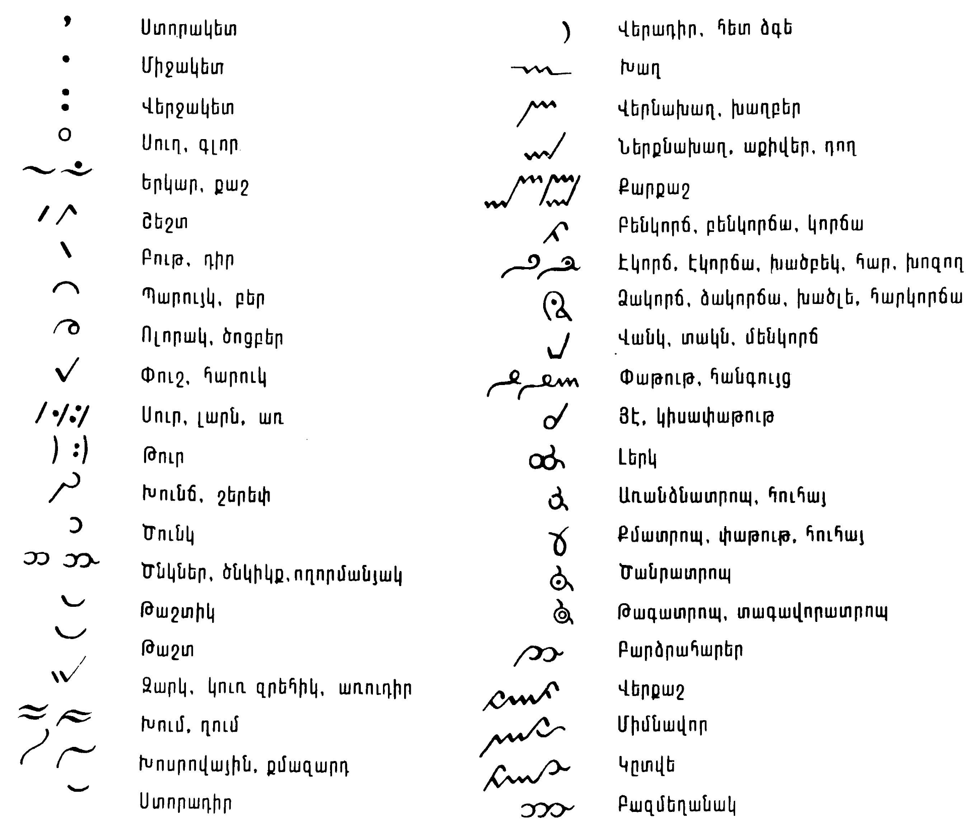 This file got from "Soviet Armenian Encyclopedia" with "Creative Commons BY-SA 3.0" License.